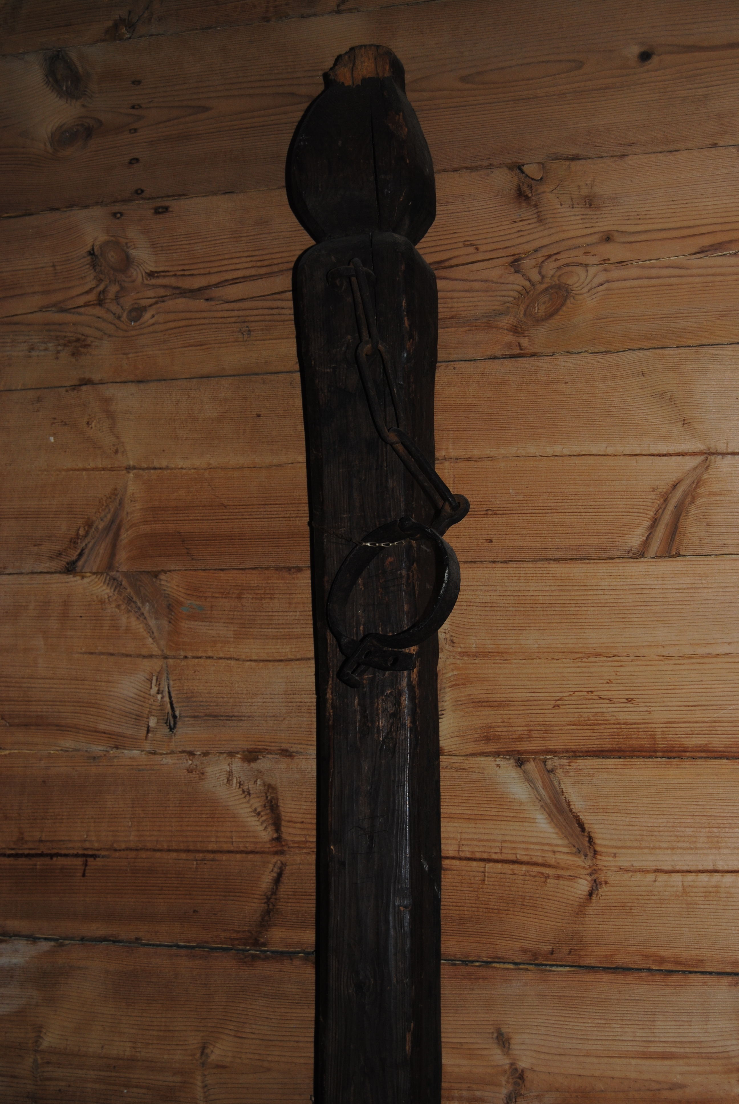 Pillory in Manger church, Norway